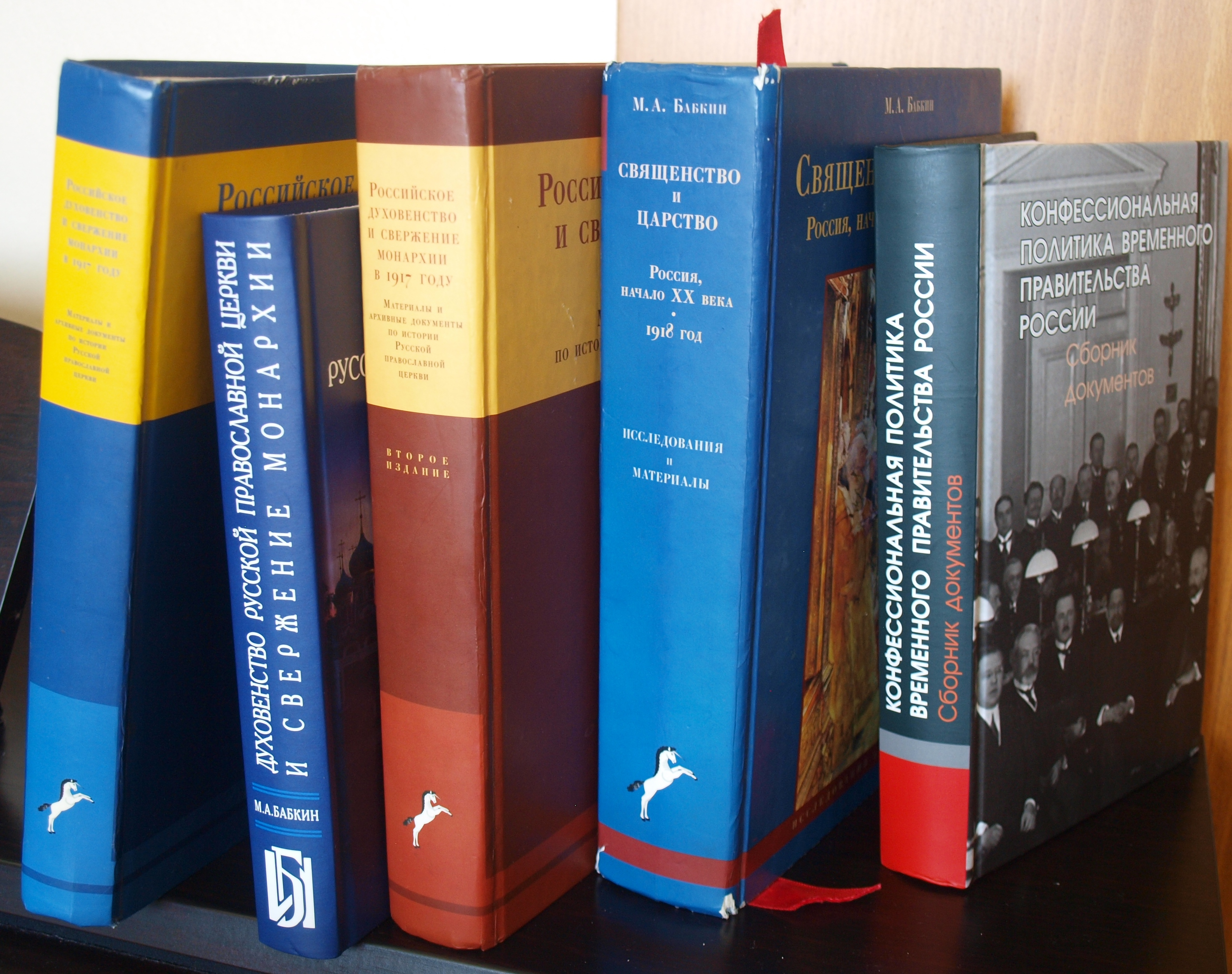 OLYMPUS DIGITAL CAMERA Мои книги. Авторские. Без учёта соавторских.